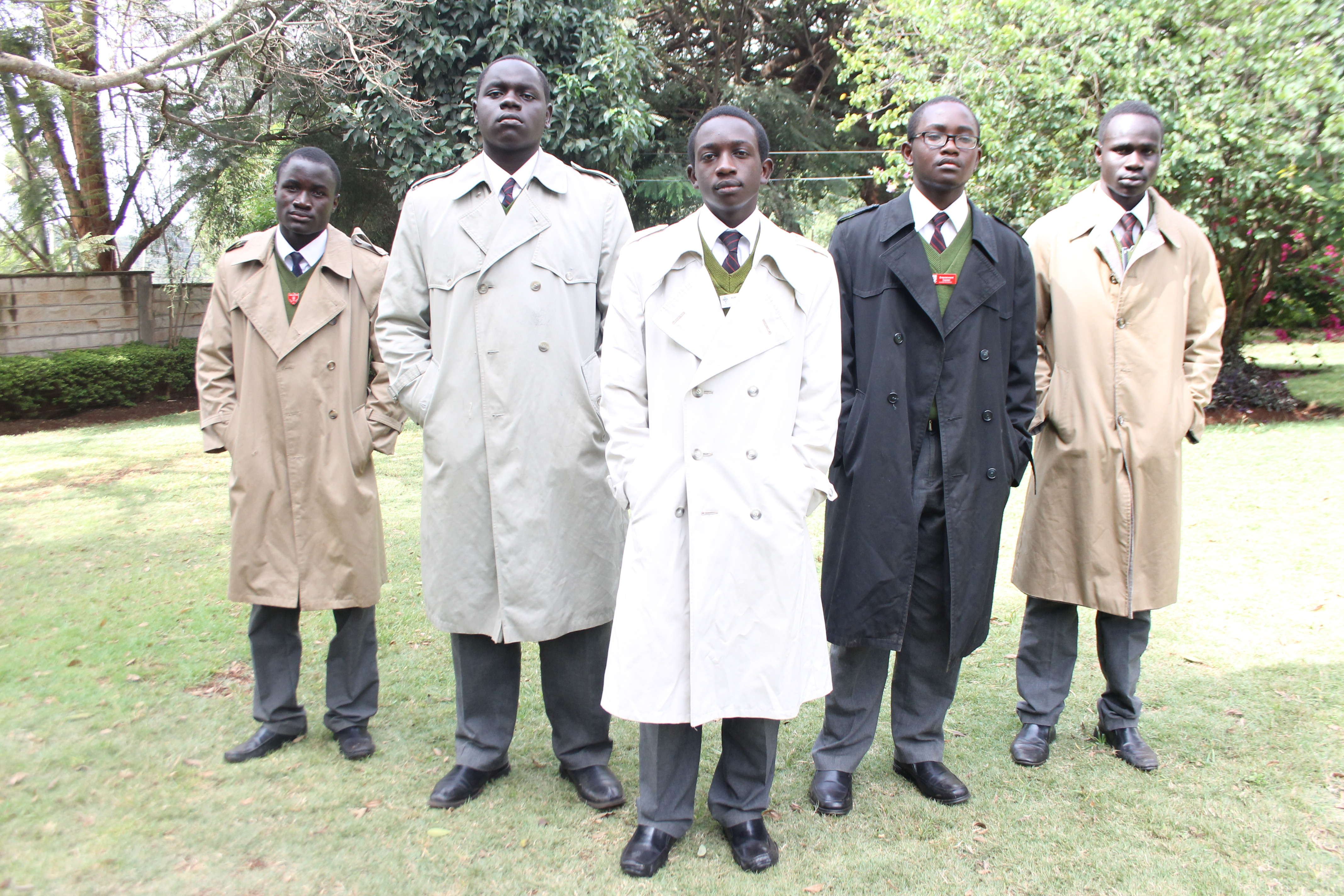 This is a photo of the 2016 Pentagon - the top five prefects (captains). They are the Dining Hall Captain, the Deputy School Captain, the School Captain, the Entertanment Captain, and the Games Captain(from left).